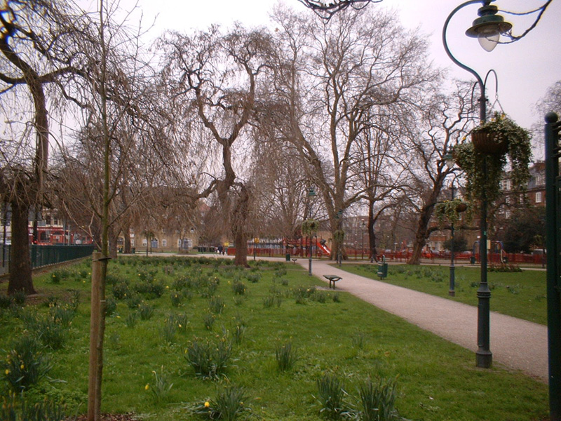 Camberwell Green, Southwark, London. Taken by C Ford, 21st February 2004.